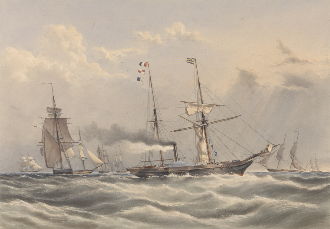 The steam frigate 'Firebrand' and the Experimental Squadron of 1844 Inscribed: “H.M. Steam Frigate Firebrand and the Experimental Squadron”. Various Experimental Squadrons were at sea in 1844-6 testing new technology. ‘Firebrand’ served as the commanding umpire’s vessel in the one sent out from Portsmouth in 1844. They departed Spithead on 22 October, ‘Firebrand’ leading eight newly-designed sailing brigs, sailed to Portugal, and returned to Devonport on 6 December. Here, ‘Firebrand’ is shown centrally in starboard-broadside view, under steam but with clewed-up sails on her foremast, and surrounded by her brig complement in various positions, the whole set out of sight of land in a fresh breeze. There are men in her shrouds, and she is signalling (blue-yellow-blue-yellow-blue horizontal from her foretop; red-white-blue vertical, red-white quartered, and white-blue vertical from her main). The overall impression is that manoeuvres are taking place. 'Firebrand' was a paddle frigate built in 1842 and sold in 1864. She appears in several drawings in the sketchbook of Captain George Pechell Mends (PAI0868 verso, PAI0873 and PAI0882) as part of the Mediterranean Fleet. In the first two of these she is shown towing major sailing vessels. [PvdM 2/12] Hand-coloured. H.M. steam Frigate Firebrand and the Experimental Squadron